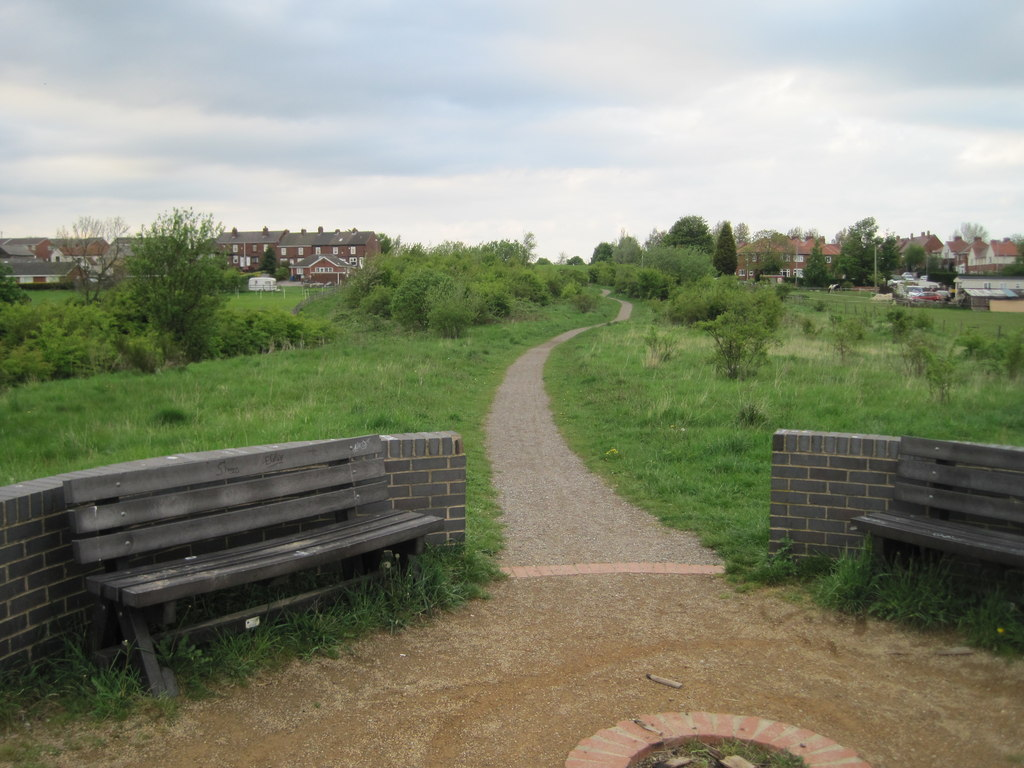 Ryhill Halt railway station (site), YorkshireOpened in 1912 by the Lancashire & Yorkshire Railway on their Dearne Valley Railway from Wakefield Kirkgate to Edlington (south west of Doncaster), this station closed in 1951. The halts on this line were apparently made of old sleepers with an old railway carriage for shelter, so not surprisingly nothing remains. In addition, the cutting here appears to have been filled in and landscaped, so the photographer is probably standing many feet above the site of the station. View north west towards Wakefield.